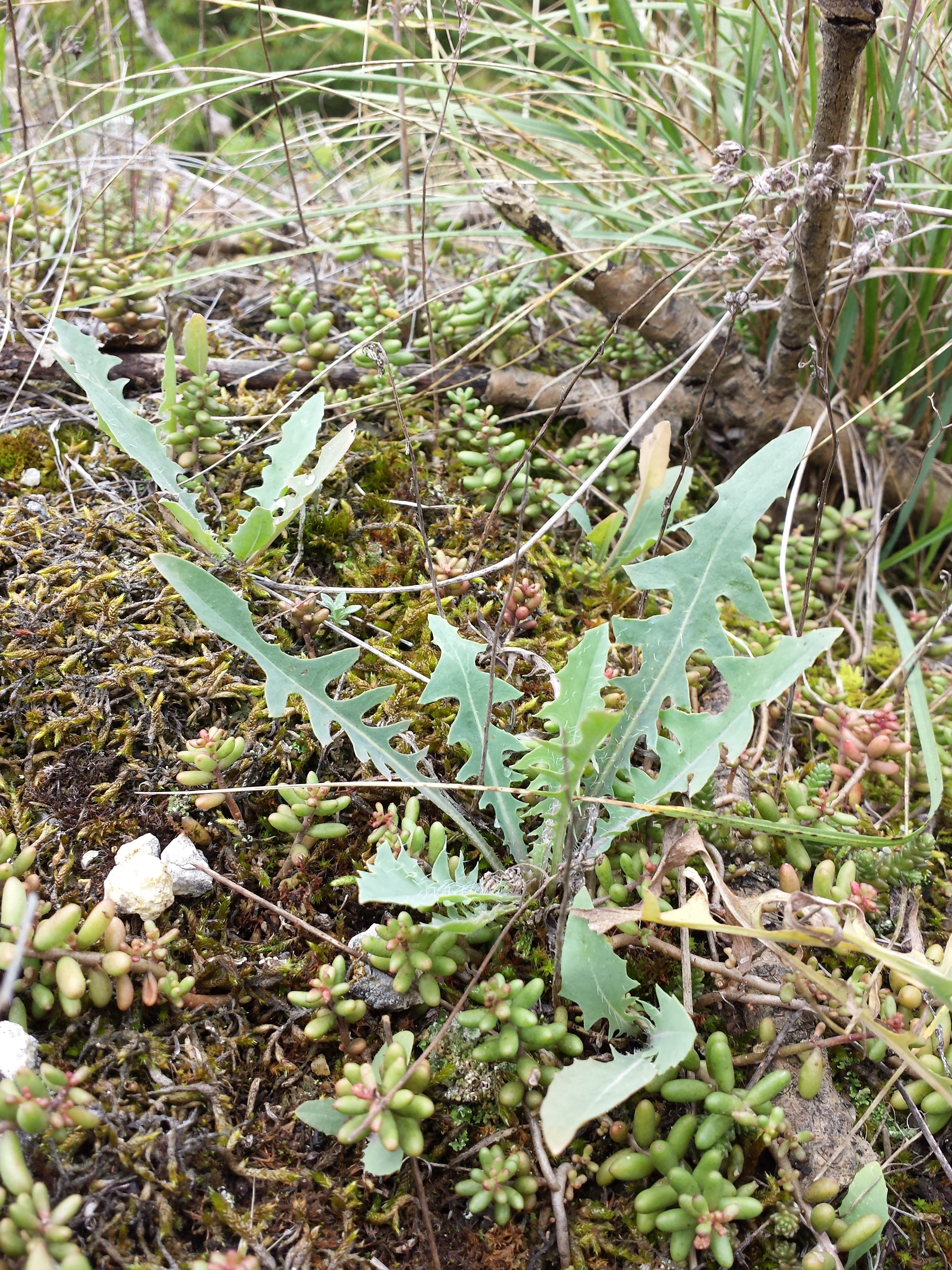 Habitus Taxon: Lactuca viminea (sensu Fischer et al. EfÖLS 2008 ISBN 978-3-85474-187-9) Location: Steinbacher Heide-Steinbruch near Oberleis, district Korneuburg, Lower Austria - ca. 430 m a.s.l. Habitat: rock steppe (lime stone)